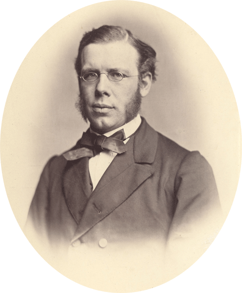 Thorvald Olaf Boeck (1835–1901), norwegian bibliophile that owned the largest private book collection, sold in 1899 to Det Kongelige Norske Videnskabs-Selskab in Trondheim. He was born in Oslo, the son of physician and professor Christian Boeck (1798-1877)